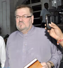 Nitin Mukesh at Sonu Nigam's mother's prayer meet